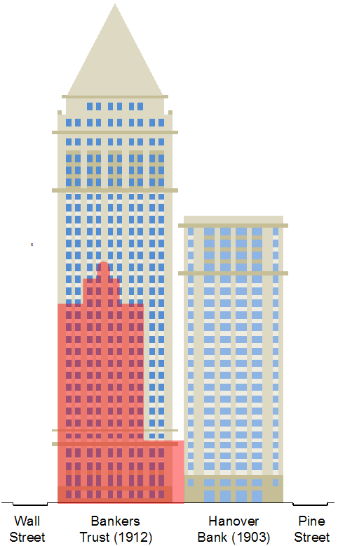 Outline of Bankers Trust and Hanover Bank buildings on Manhattan in 1912. Red outline: Gillender and Stevens buildings demolished in 1910.